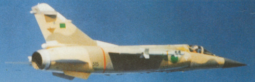 On 18 August 1981 the USN fighters intercepted also a pair of LARAF Mirage F.1EDs, including the example "515", shown here. (USN)